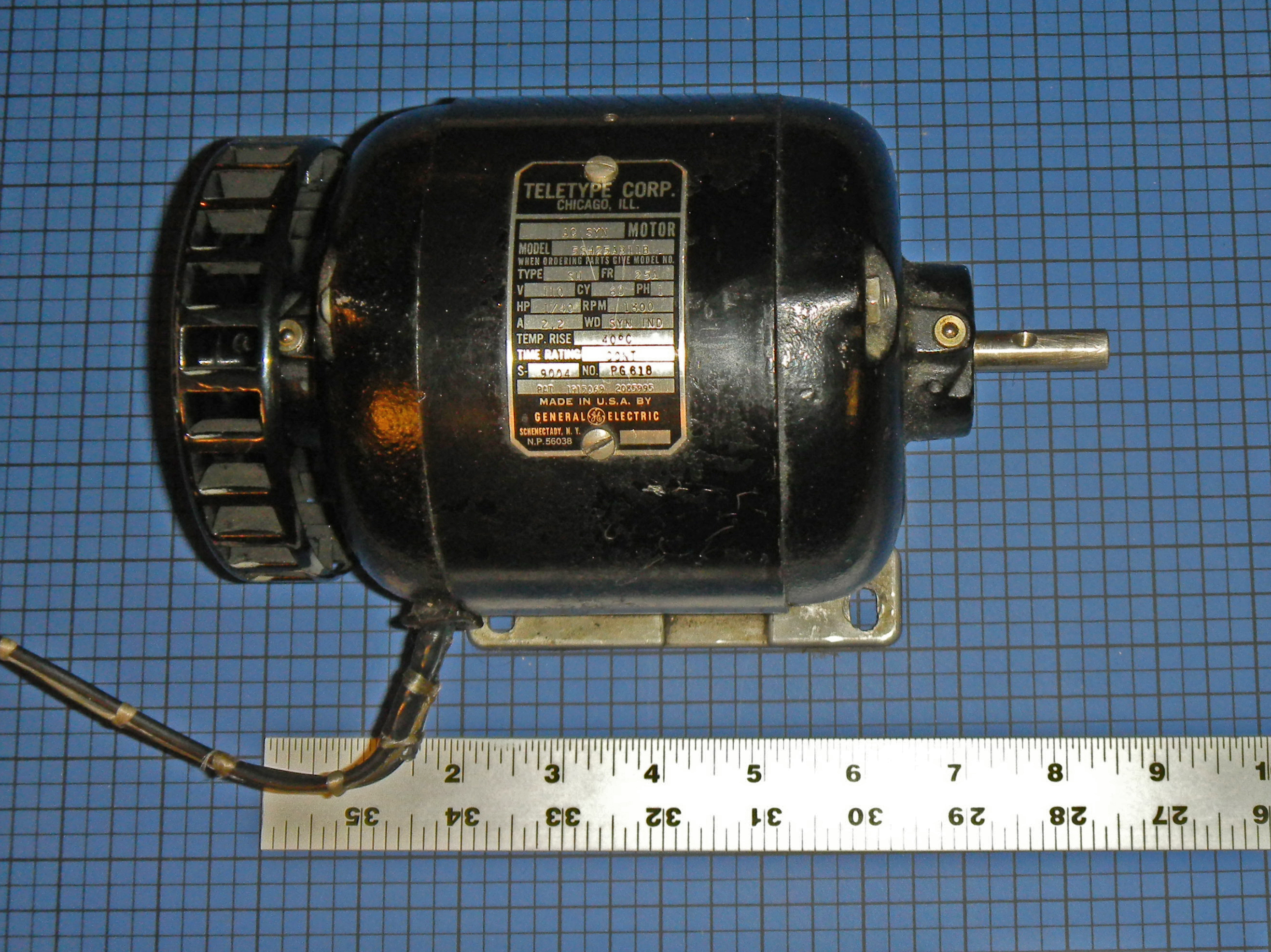 Synchronous motor as used in Model 14/15 Teletype machines. 120VAC, 60Hz, 1800 RPM. 1/40HP. Centrifugal starting switch. Intended for Synchronous motor article.